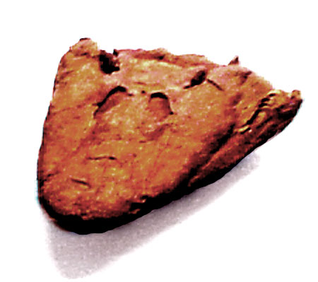 Tiktaalik skull cast (Cast of Tiktaalik skull (front view)), photographed at Science Museum, London, 2006